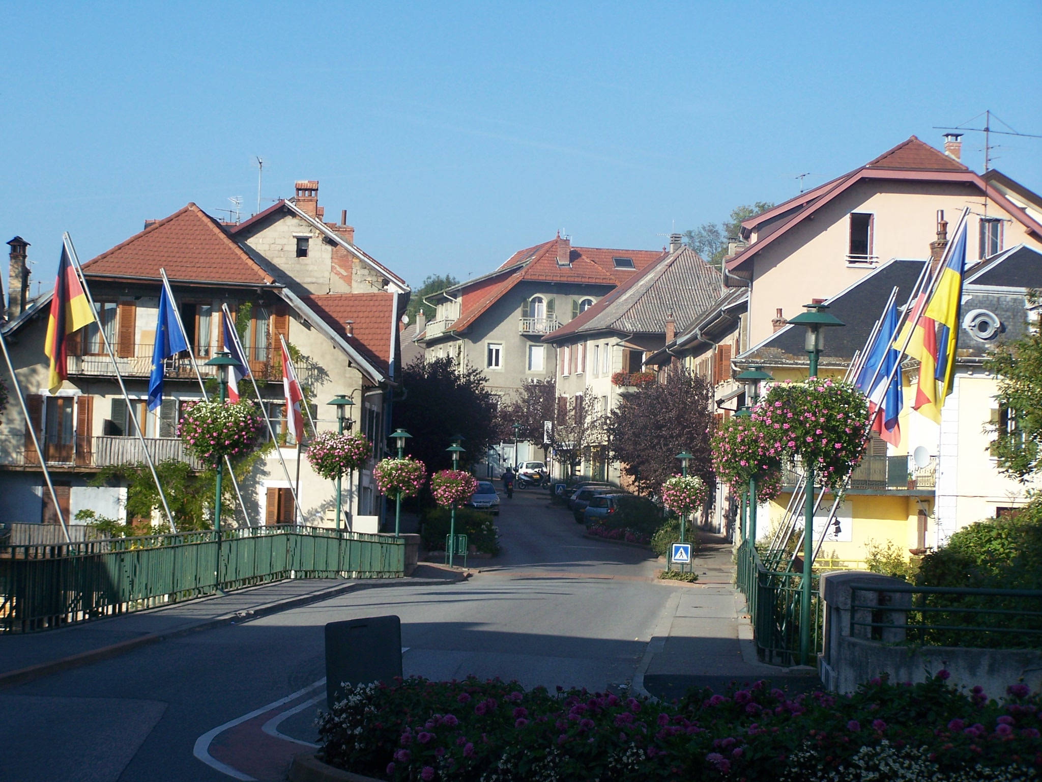 The Pont-Neuf of Rumilly crossing the Chéran river, in the French department of Haute-Savoie.